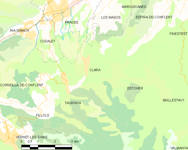 Map of French municipality